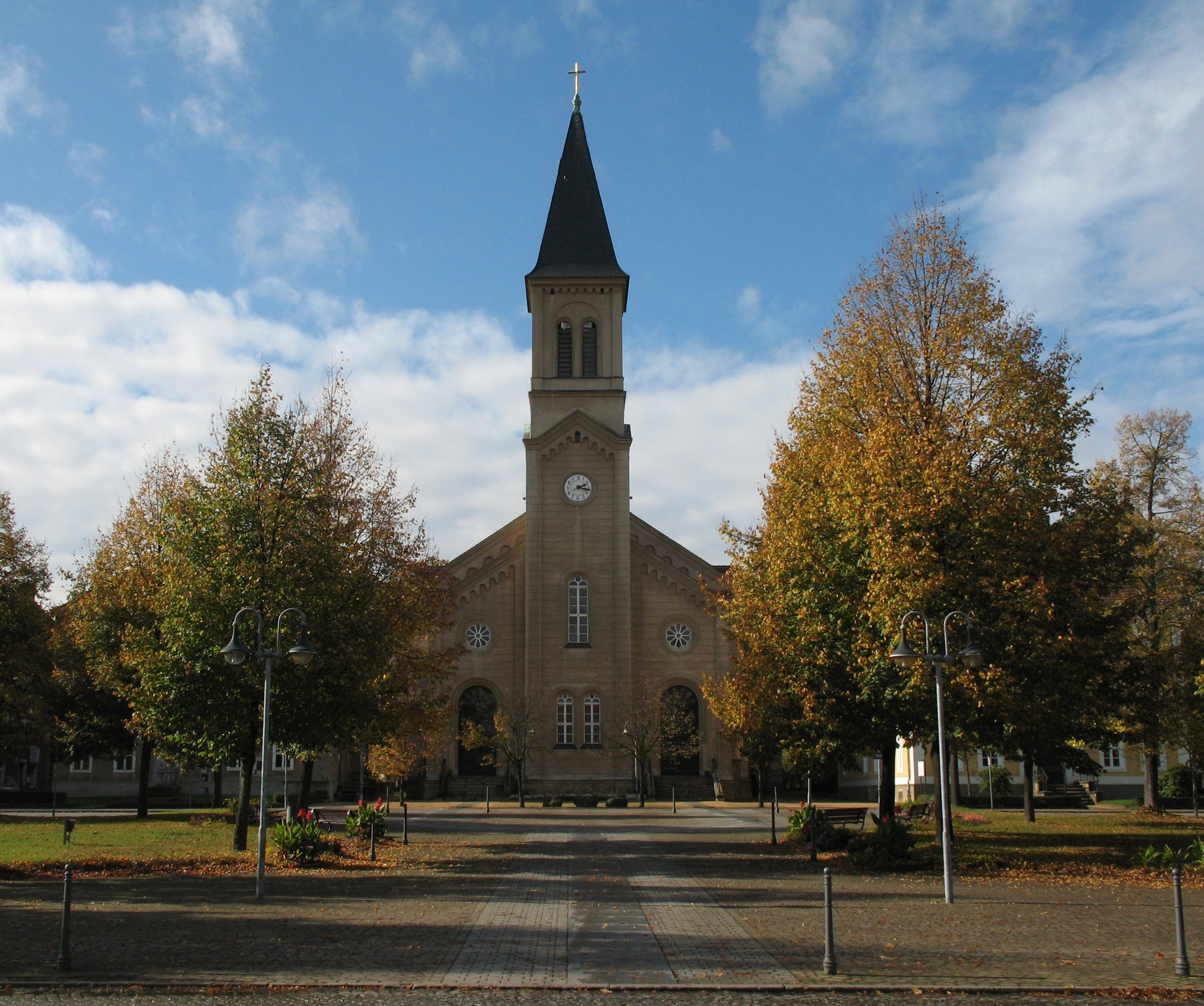 Zinzendorf square and Moravian Church in Niesky in Saxony, Germany